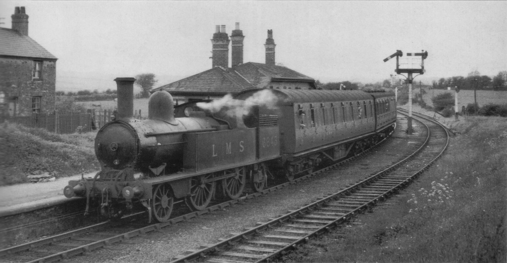 Ex-LNWR 2-4-2T (5'6") No.6713, in LMS livery, leaving Holland Arms with a train for Bangor.